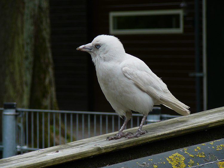 An albino Jackdaw